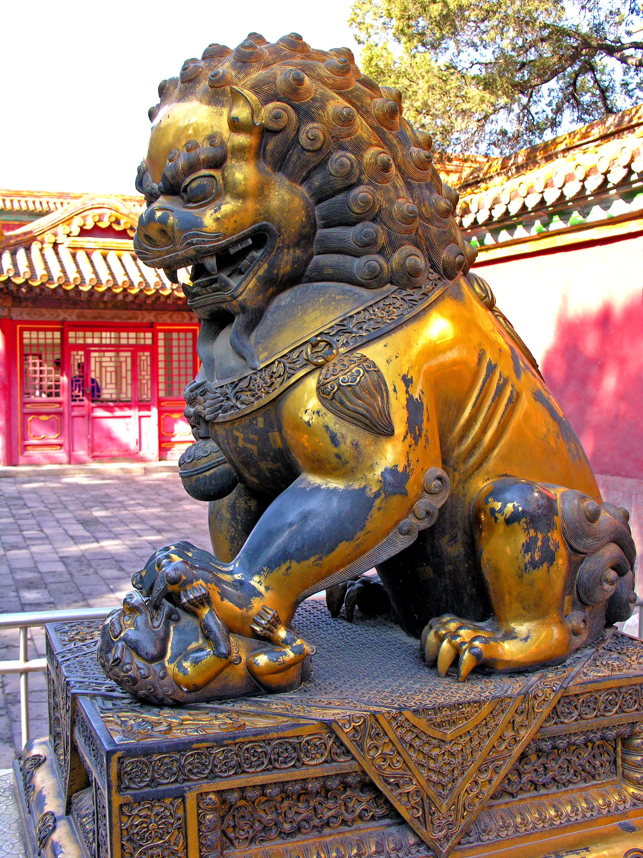 Chinese lions usually appear as male/female pairs with the male holding a ball under one paw, and the female holding a lion cub which lies on its back. One Chinese legend holds that female lions have nipples on the bottoms of their paws which they use to suckle the cub. The ball is believed to represent the union of Heaven and Earth, or the totality of Buddhist law, and the cub is believed to represent the world.